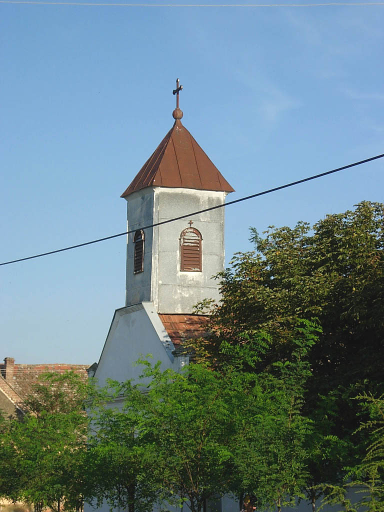 The Birth of Blessed Virgin Mary Catholic church in Vatin.